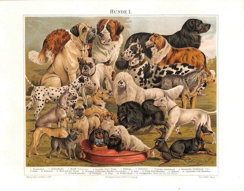 Breeds of dog from The Yuzhakov's Bolshaya Enc. (1904)